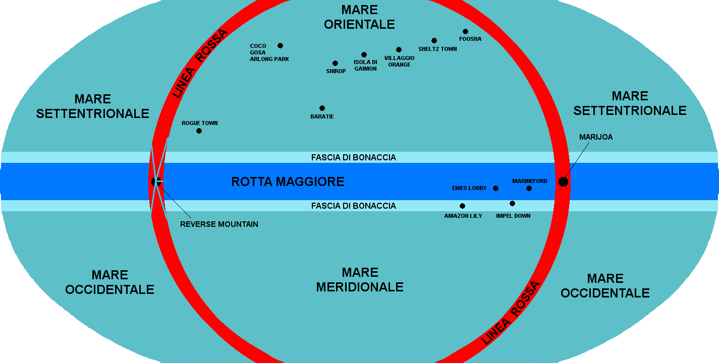 One Piece World